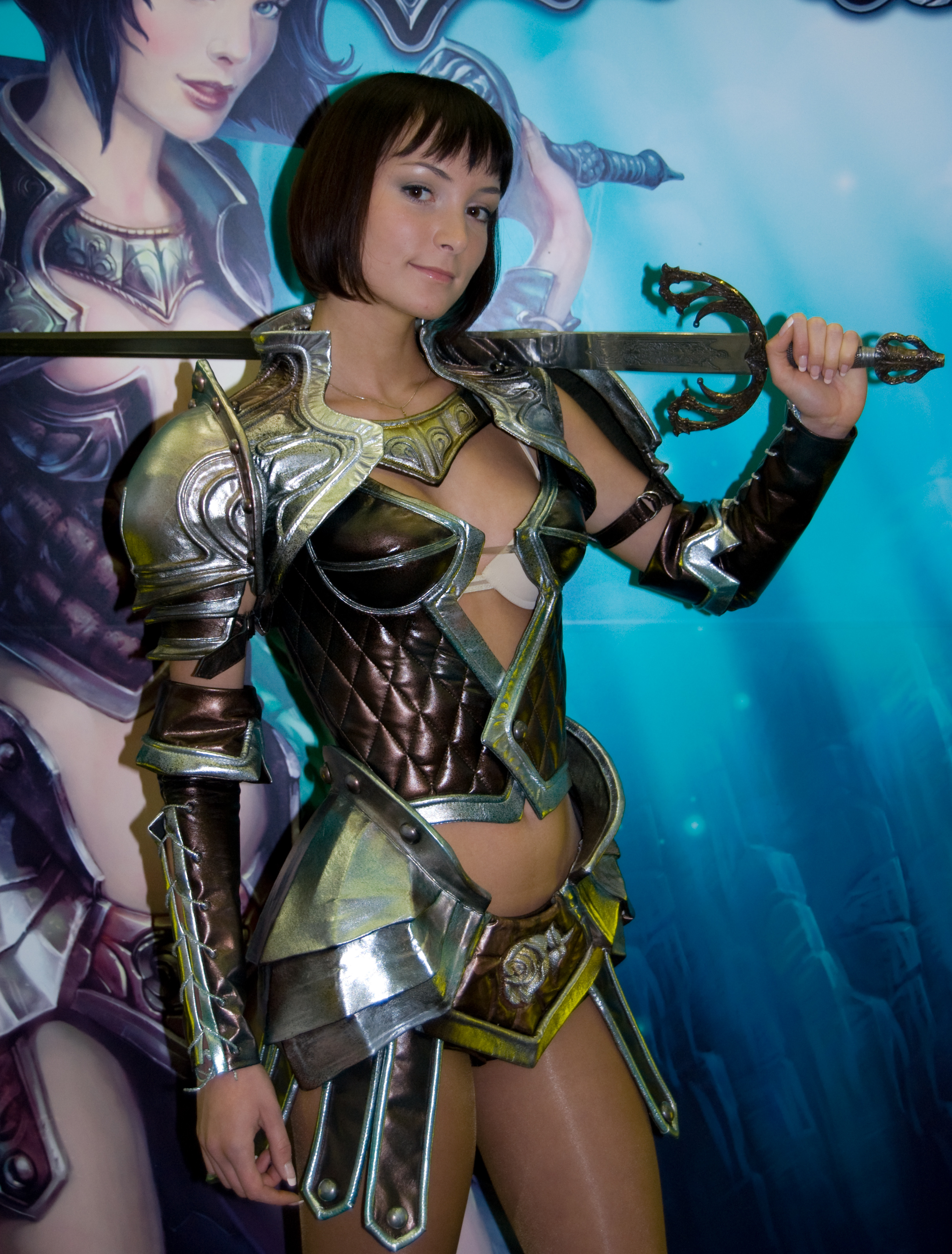 Taken on November 6, 2008 Nikon D40X